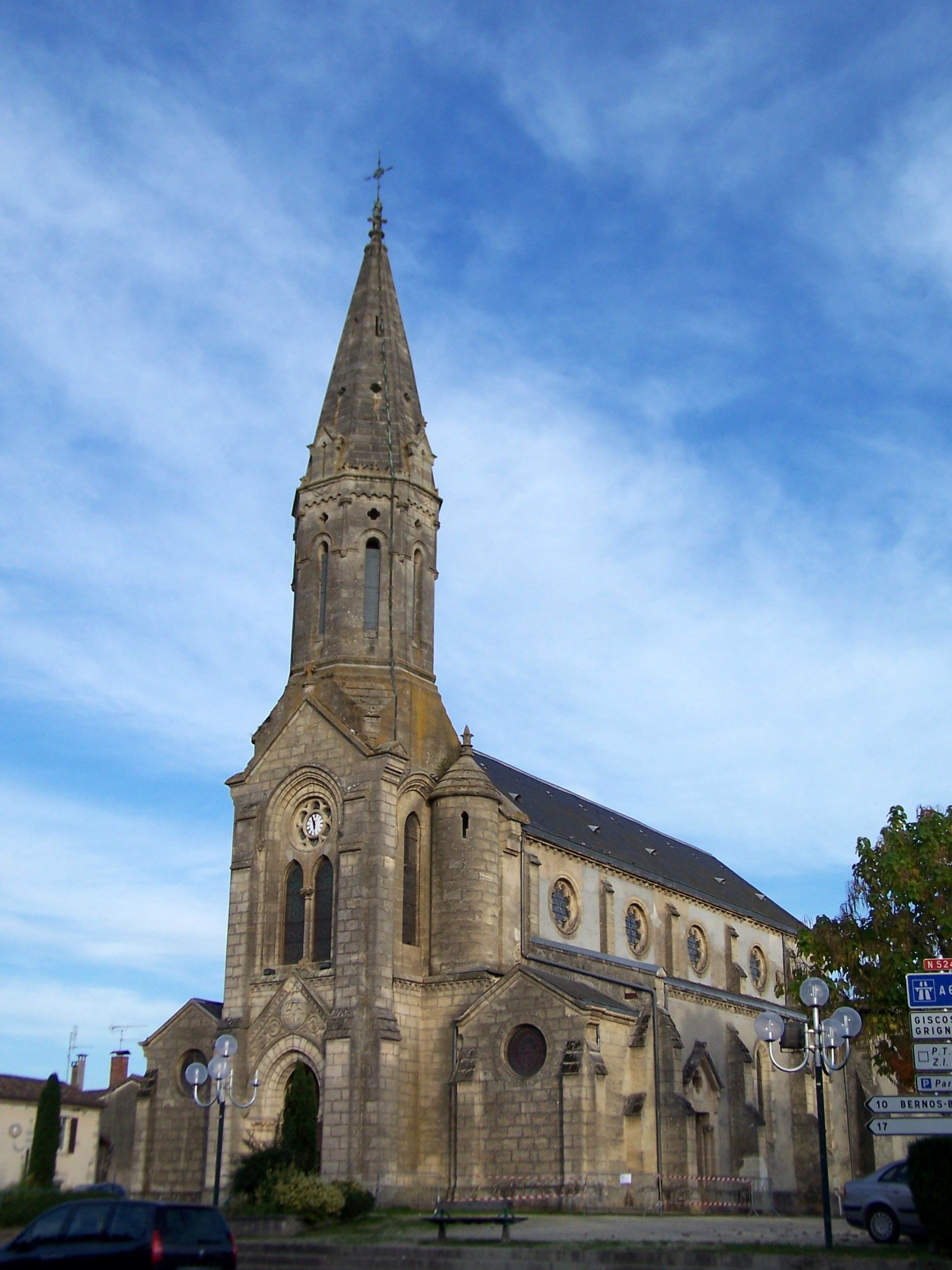 Saint Martin church of Captieux (Gironde, France)